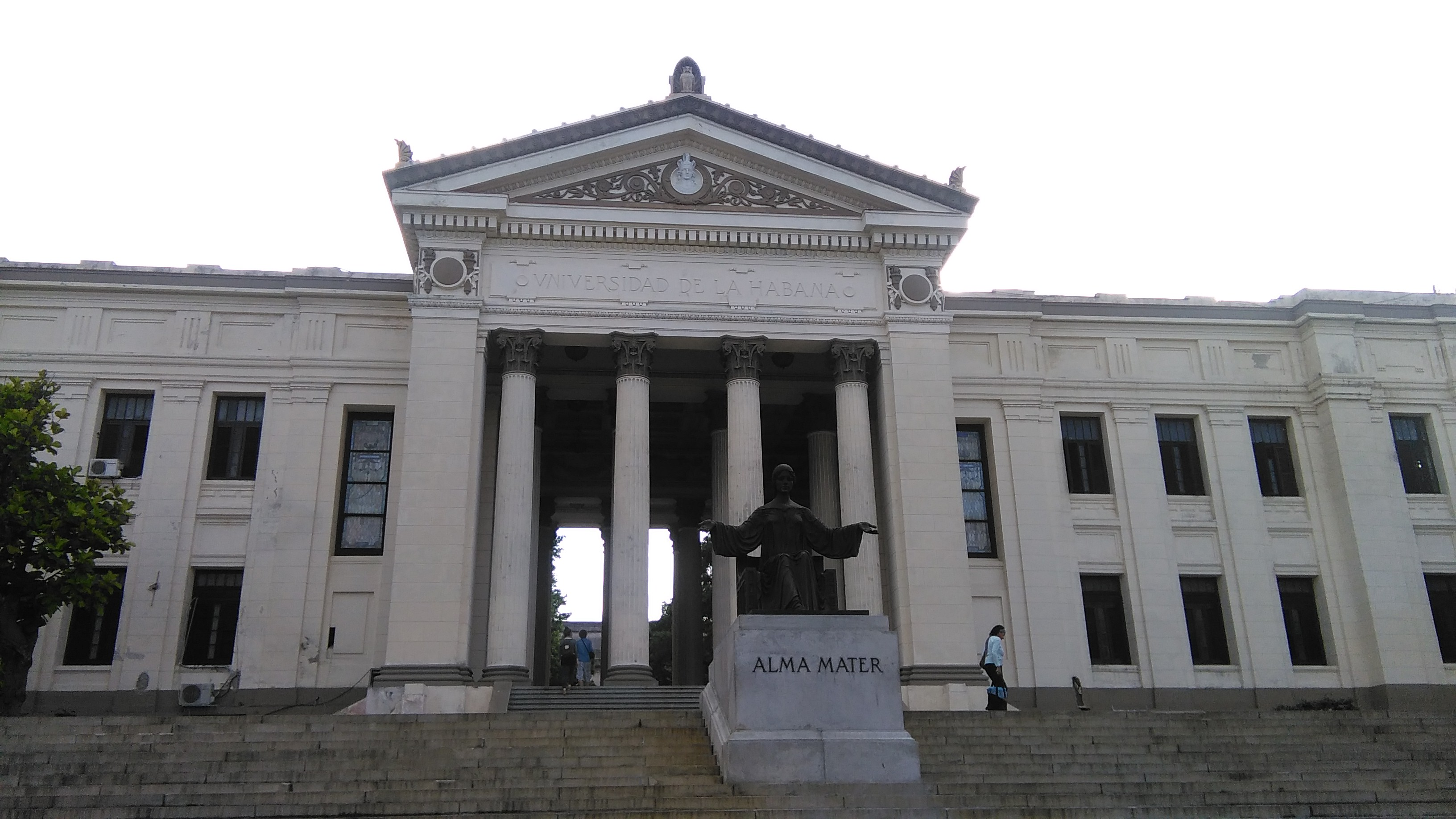 Alma mater statue at the entrance of the University of Havana.